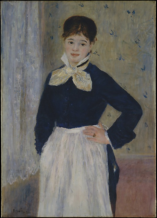 A Waitress at Duval's Restaurant